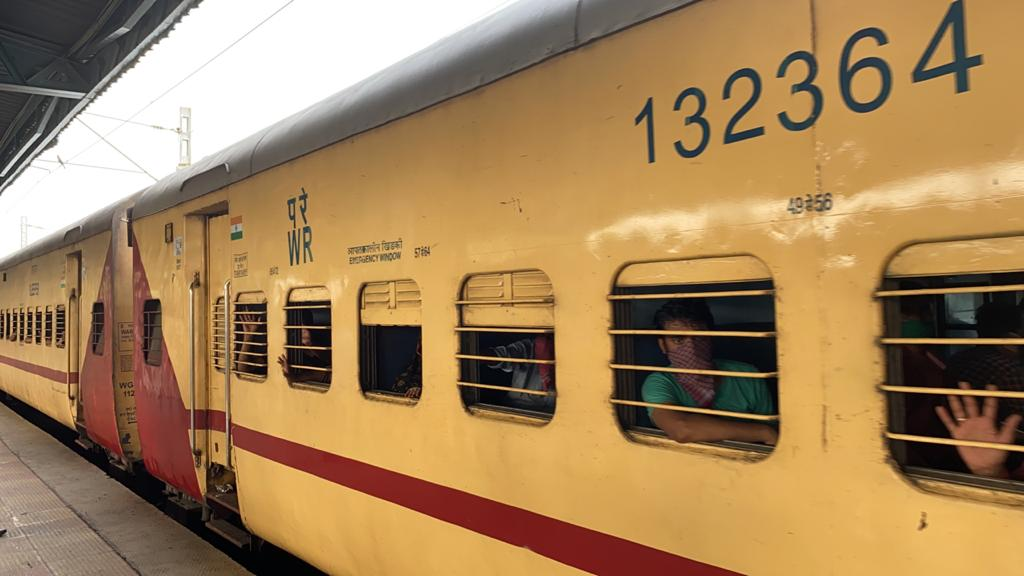 Shramik Special Trains